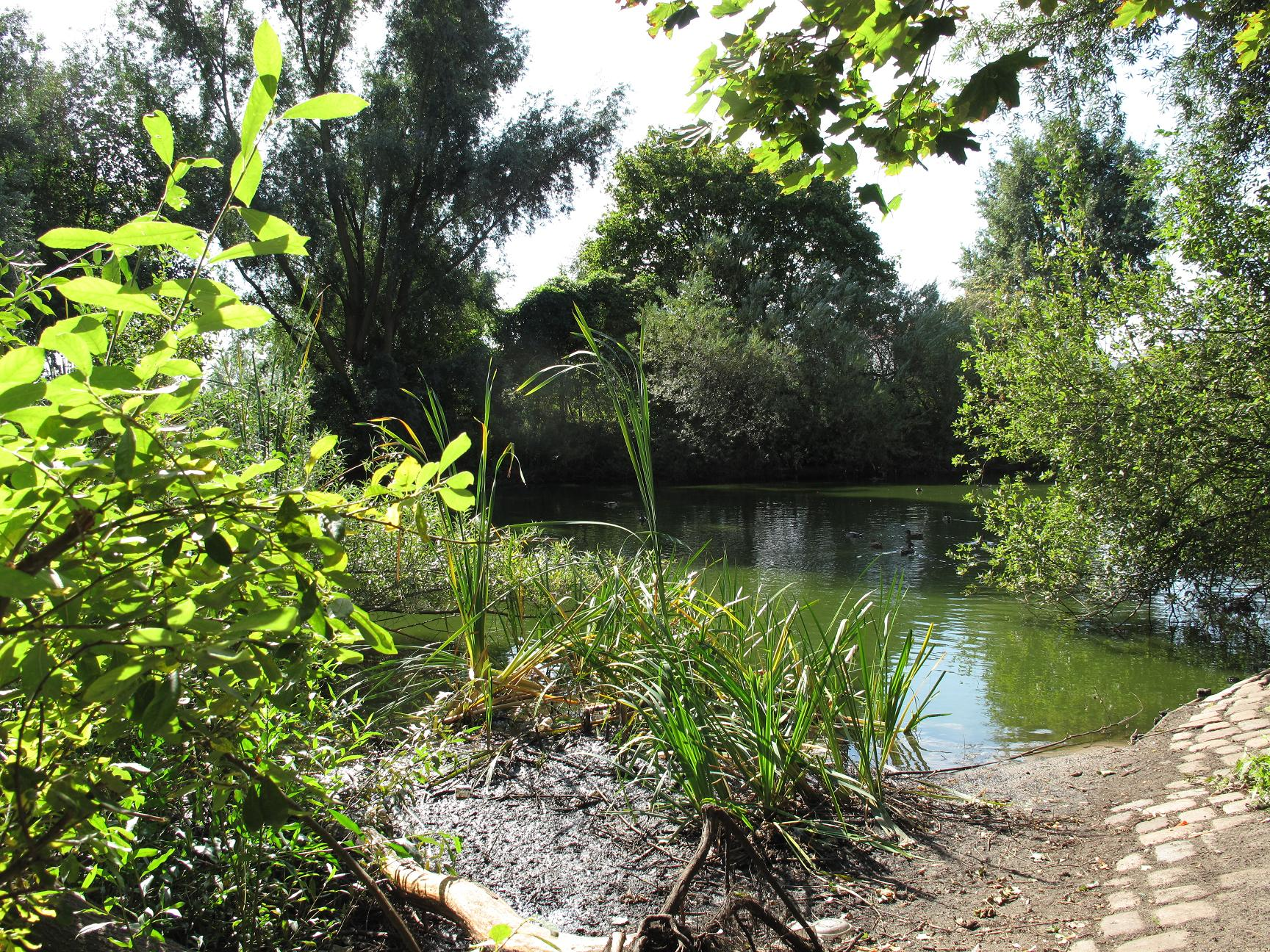 Stieglakebecken (rainwater basin) at the Bullengraben. The Bullengraben (german for: bullditch) is a drainage channel to the river Havel in the localities Staaken, Wilhelmstadt and Spandau in the borough Berlin-Spandau, Germany. In 2007 there was opened the green space Bullengraben (german: „Grünzug Bullengraben“) along the 4,5 kilometre long ditch.